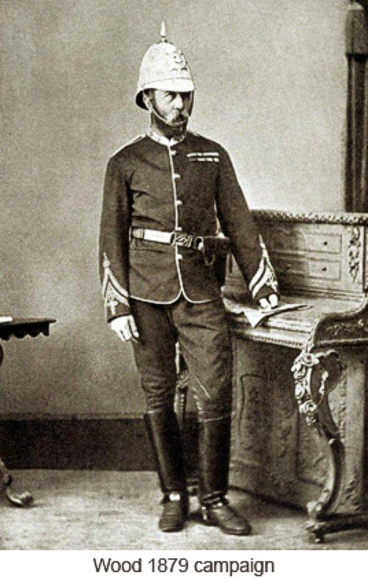 Portrait of Brevet Colonel Henry Evelyn Wood, V.C., of the 90th (Perthshire Volunteers) Light Infantry and No.5 Column - Battle of Hlobane